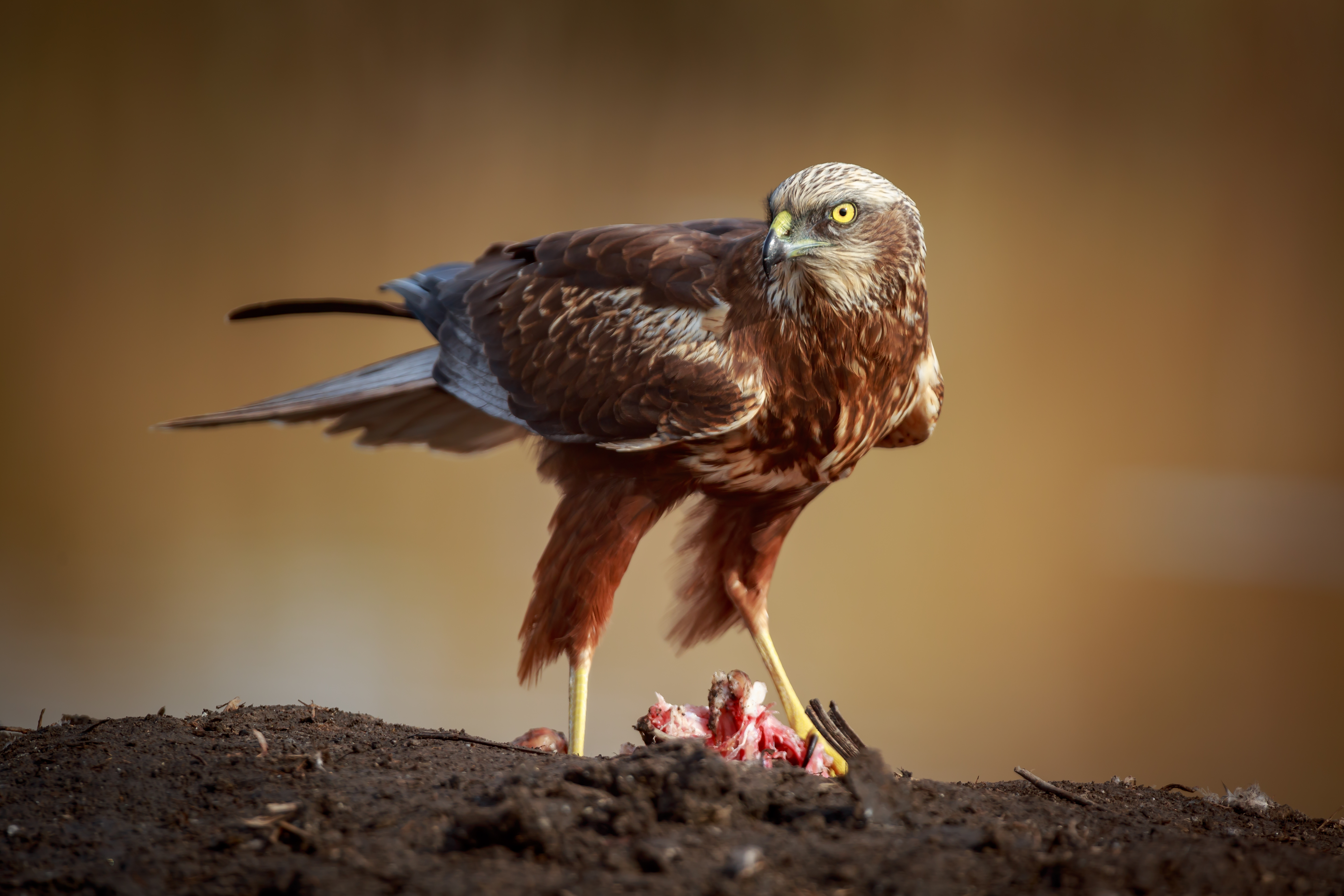 Female European Marsh Harrier (Circus aeruginosus), Valencia, Spain.